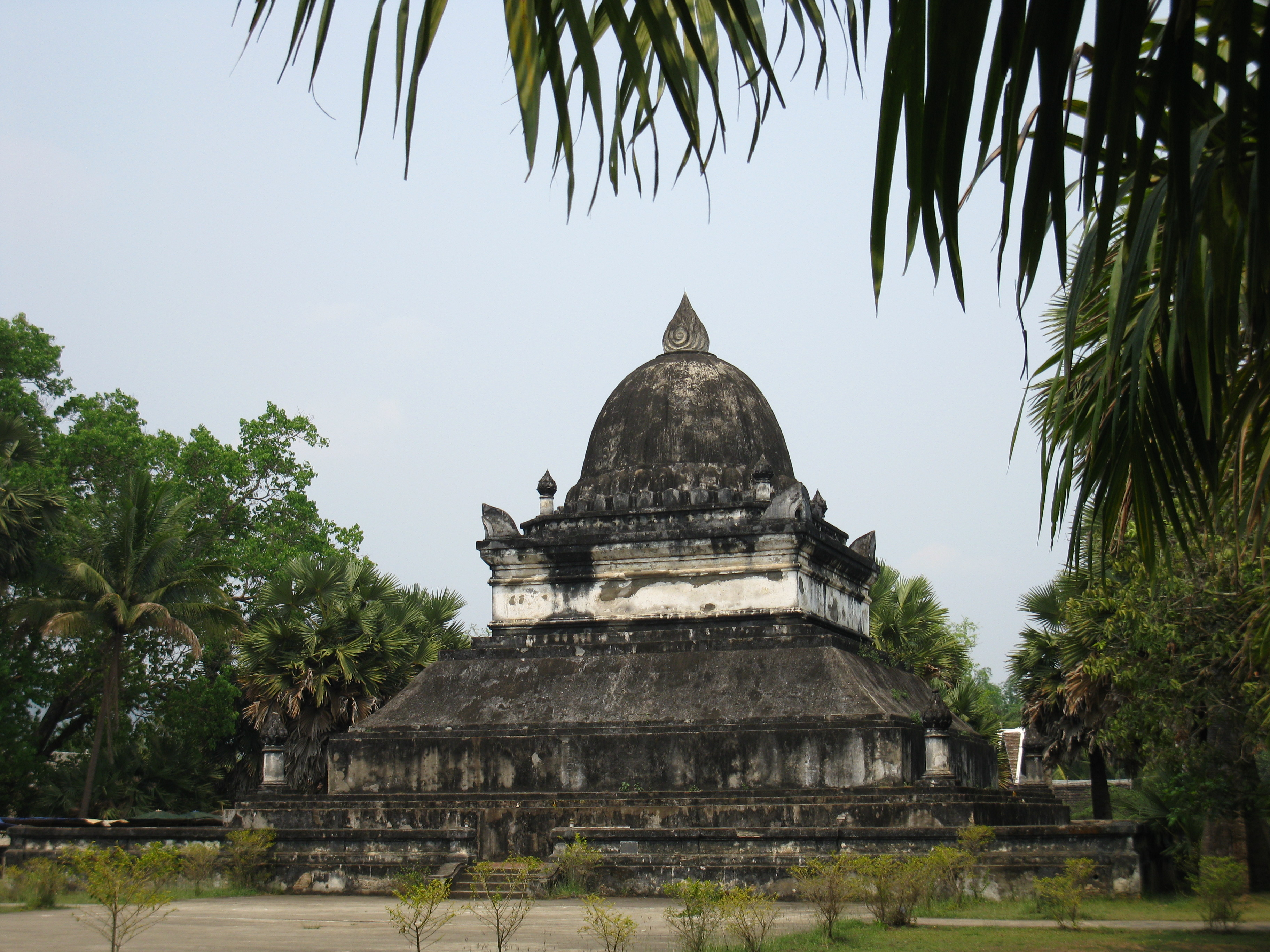 Vat Visounarath, Luang Prabang, Laos